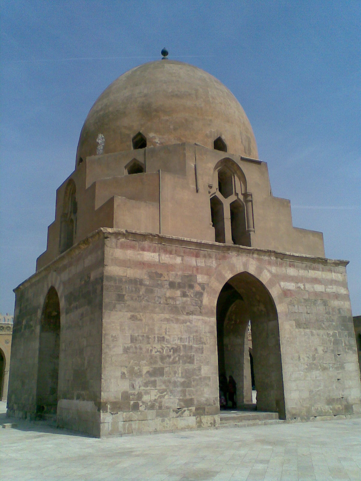 Dome in the center of Ibn Tulun mosque